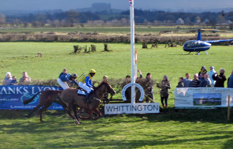 Two horses racing to the finish point at the Whittington races